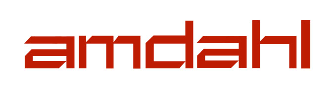 This is the Amdahl Corporation logo from the "good old days," prior to its buy-out by Fujitsu. The underlying logo, if covered by copyright, is copyright by Amdahl, now presumably Fujitsu. I obtained a black-and-white poorly digitized copy from the United States Patent & Trademark Office (application serial no. 73073906, registration no. 1072128; filed Jan. 12, 1976, registered Aug. 30, 1977, canceled Jan. 24, 1984): :Image:AmdahlLogo.gif I cleaned it up using a copy of the logo on a coffee cup as a specimen, and colorized it to my best recollection of the Amdahl Red color. To the extent that my editorial changes have any copyright (a dubious proposition), I hereby disclaim any such copyright and place those changes in the public domain. Fair use justification: 17 U.S.C. § 107(1): non-commercial use in Amdahl Corporation to document historical usage of logo no longer in active use; 17 U.S.C. § 107(2): non-fictional work; 17 U.S.C. § 107(3): entirety of logo used, but that's necessary given context; 17 U.S.C. § 107(4): no effect on value of or market for the work. Note that trademark registration was canceled in 1984, indicating that the work is of little or no value in the estimation of the trademark/copyright holder. And to the extent my edits have any copyright associated with them: PD-self